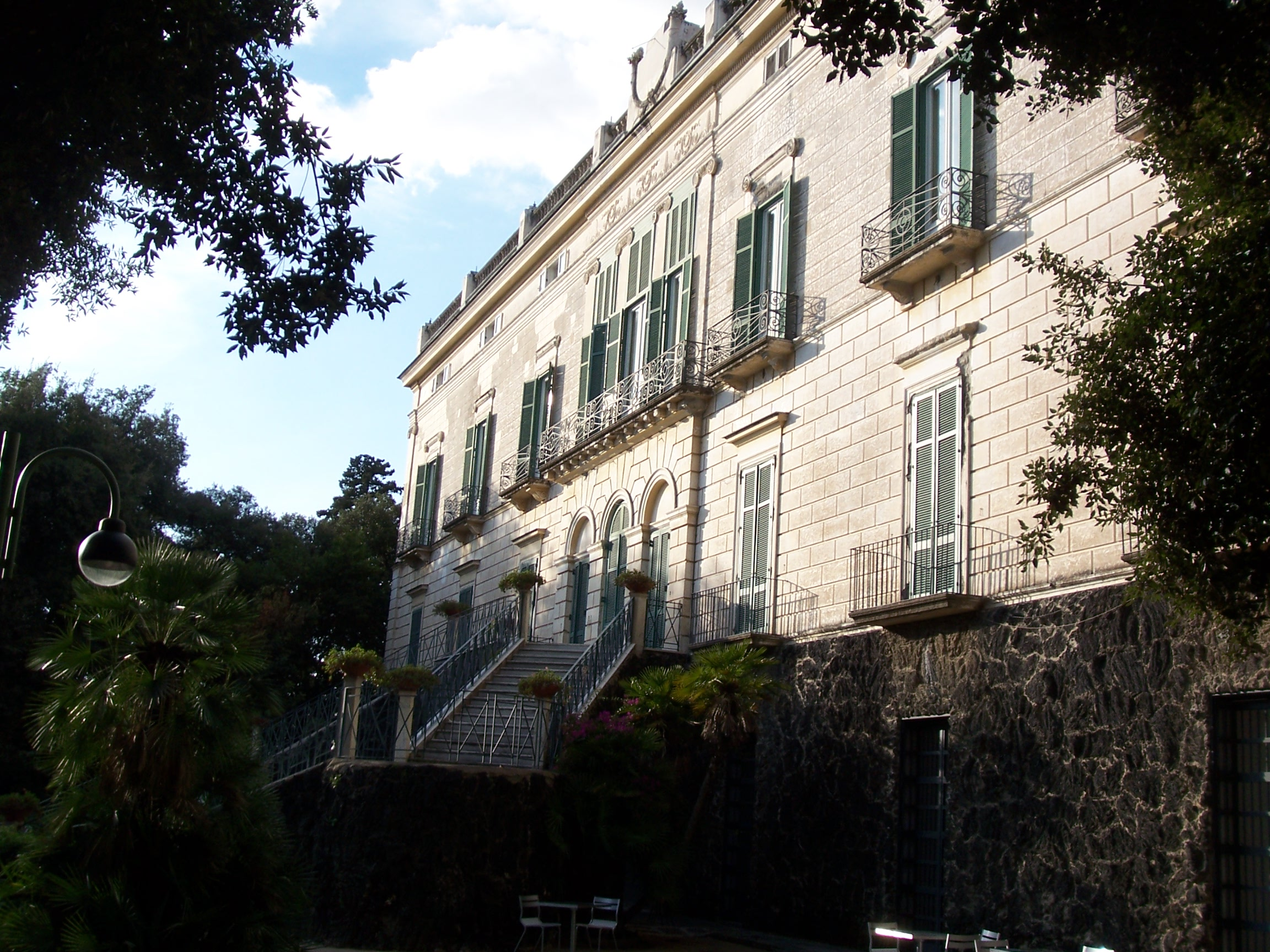 Villa Floridiana in Naples, Vomero Hill. Rear view